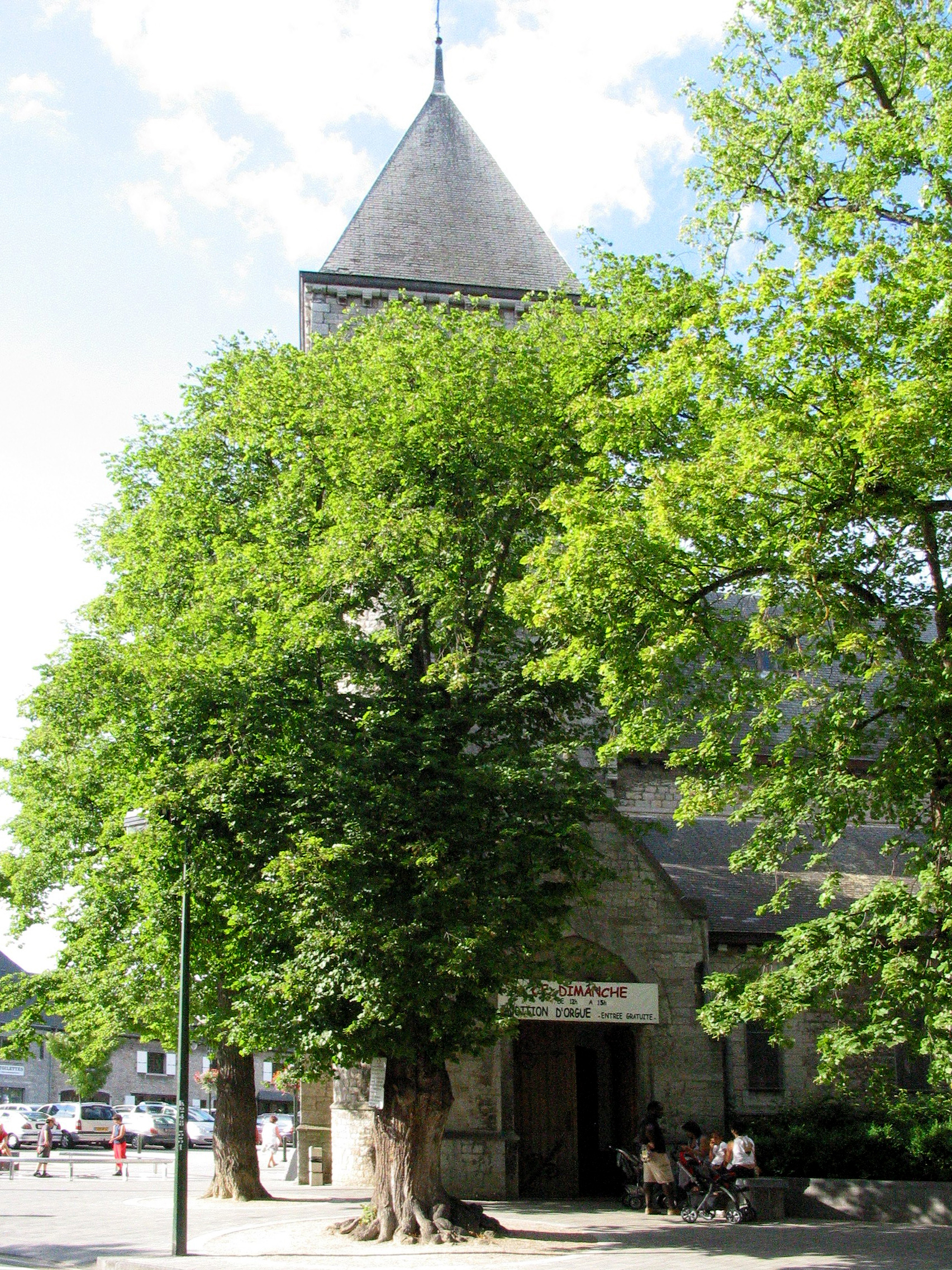 Common Lime